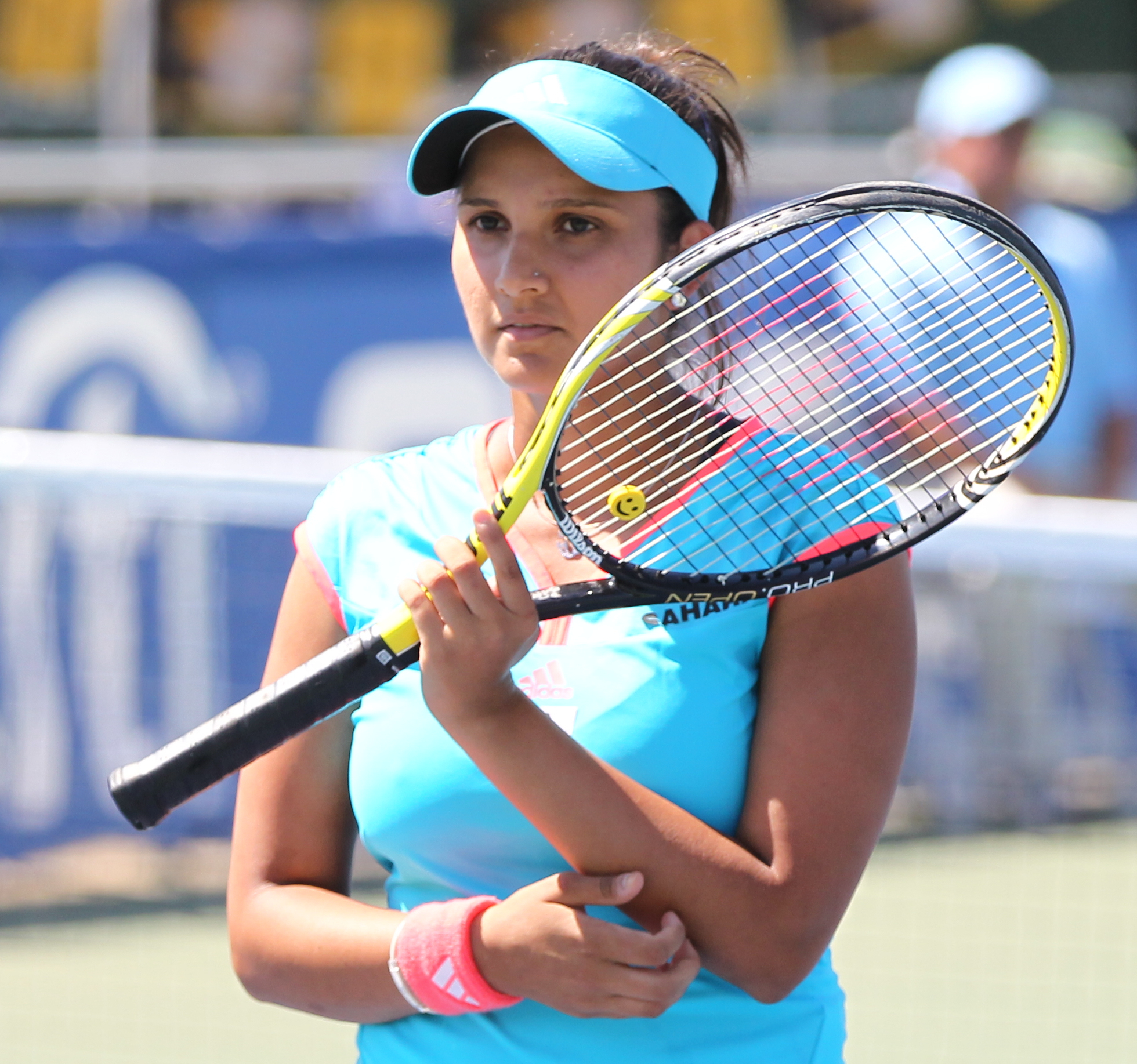 Sania Mirza snapped at Citi Open Tennis Finals July 31, 2011